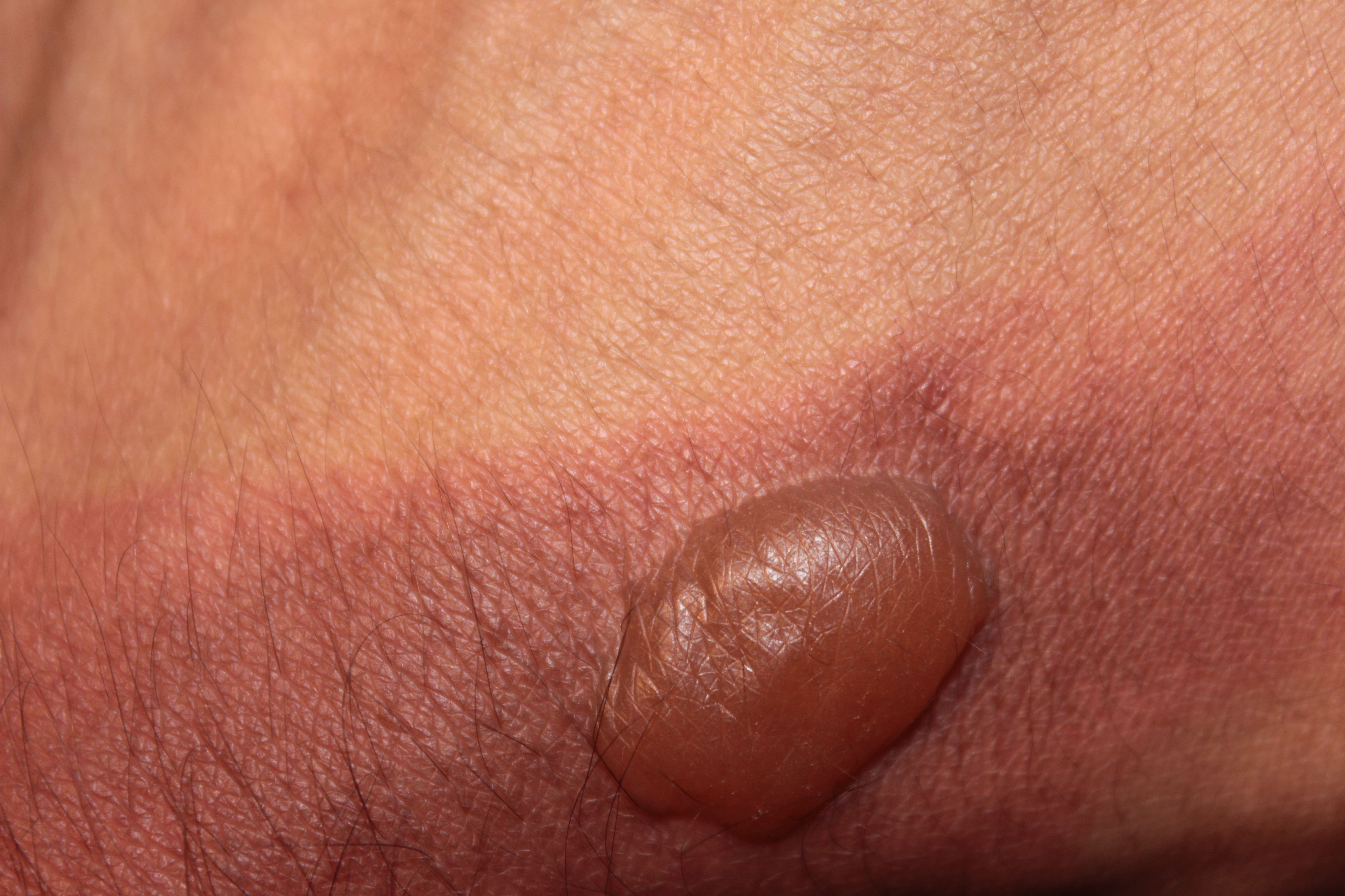 Scalded skin with thin-walled blister. Second degree burn after 2 days.